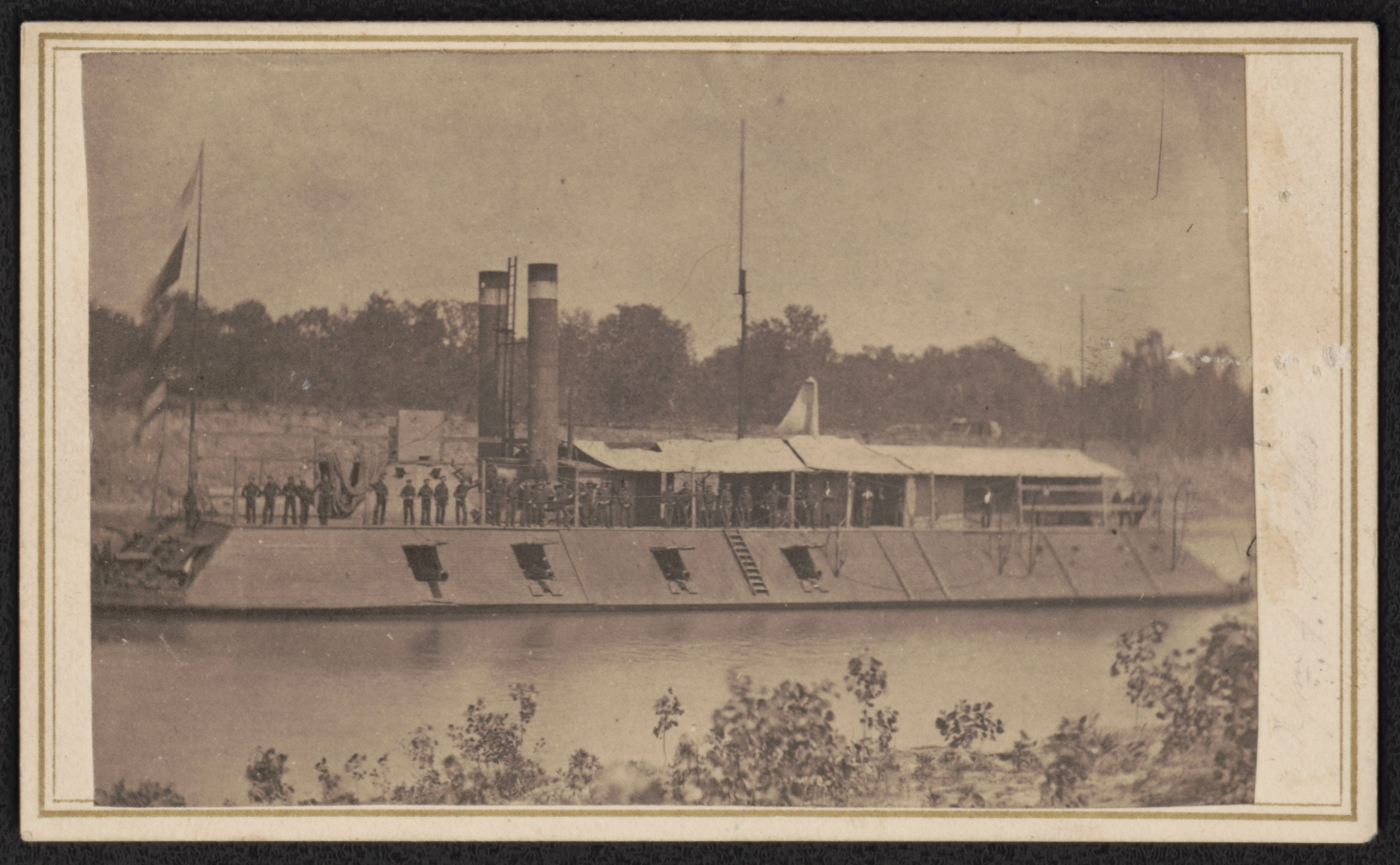 Title: Ironclad gunboat USS Louisville on the Red River] / Photographed by McPherson & Oliver, No. 132 Canal Street, New Orleans Abstract/medium: 1 photograph : albumen print on card mount ; mount 6 x 11 cm (carte de visite format)